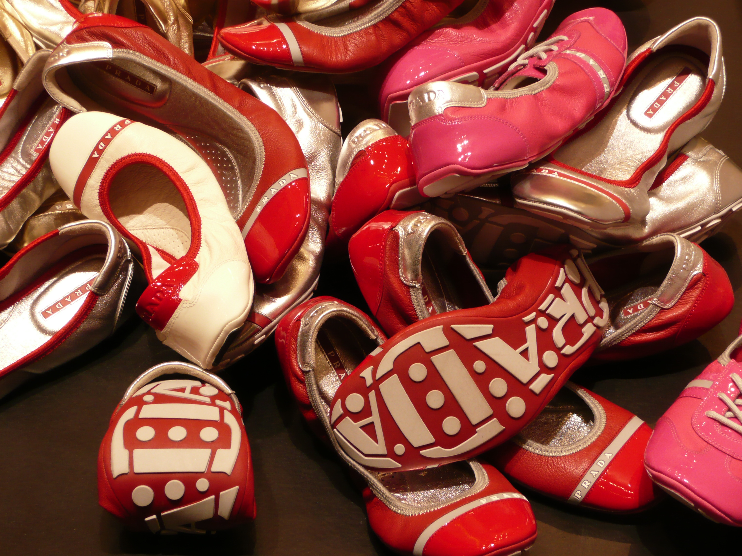 Red shoes, Prada